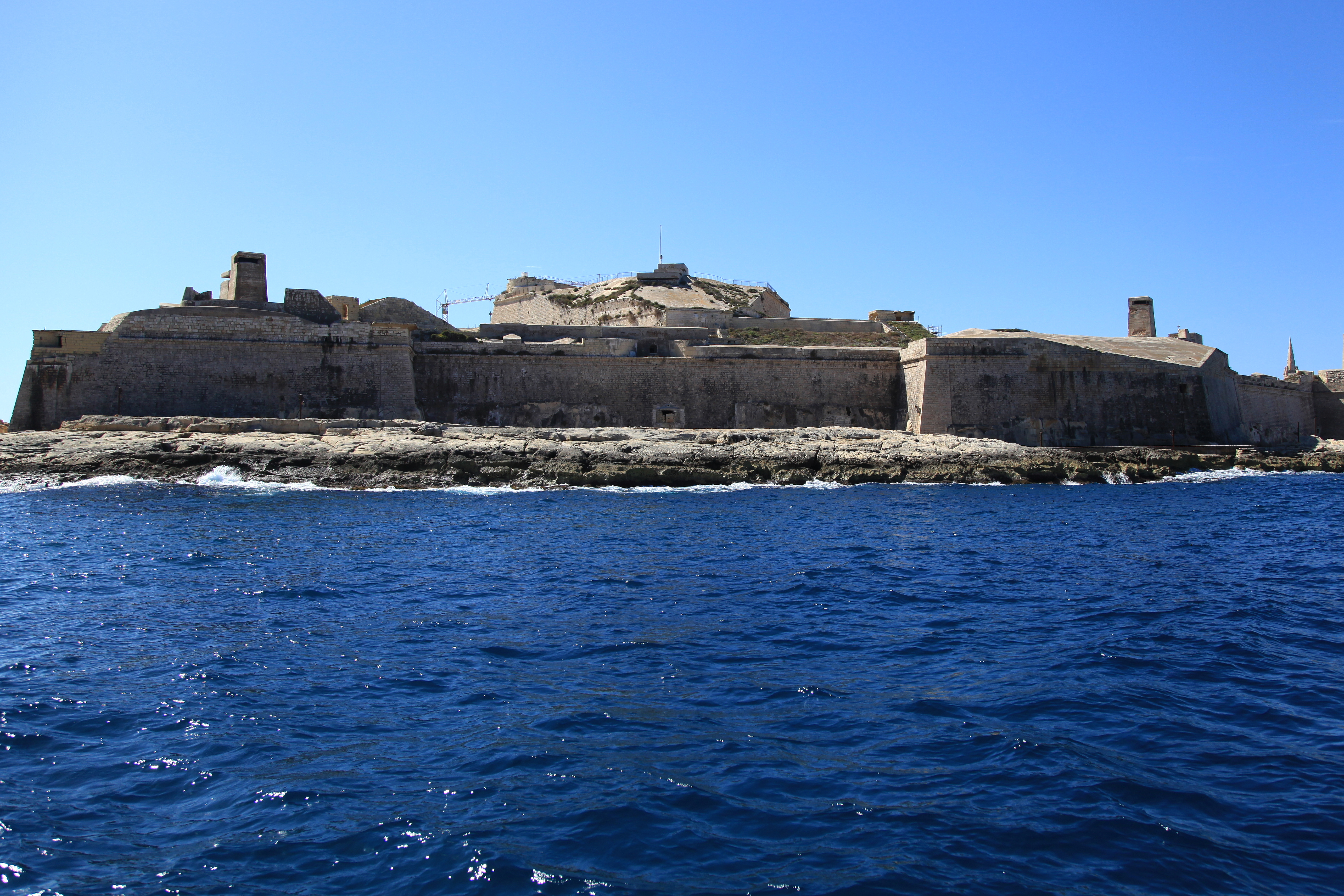 View from a Malta sightseeing two harbours cruise boat to Fort Saint Elmo at Triq il-Lanċa in Valletta, Malta